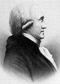 Out-of-copyright image from